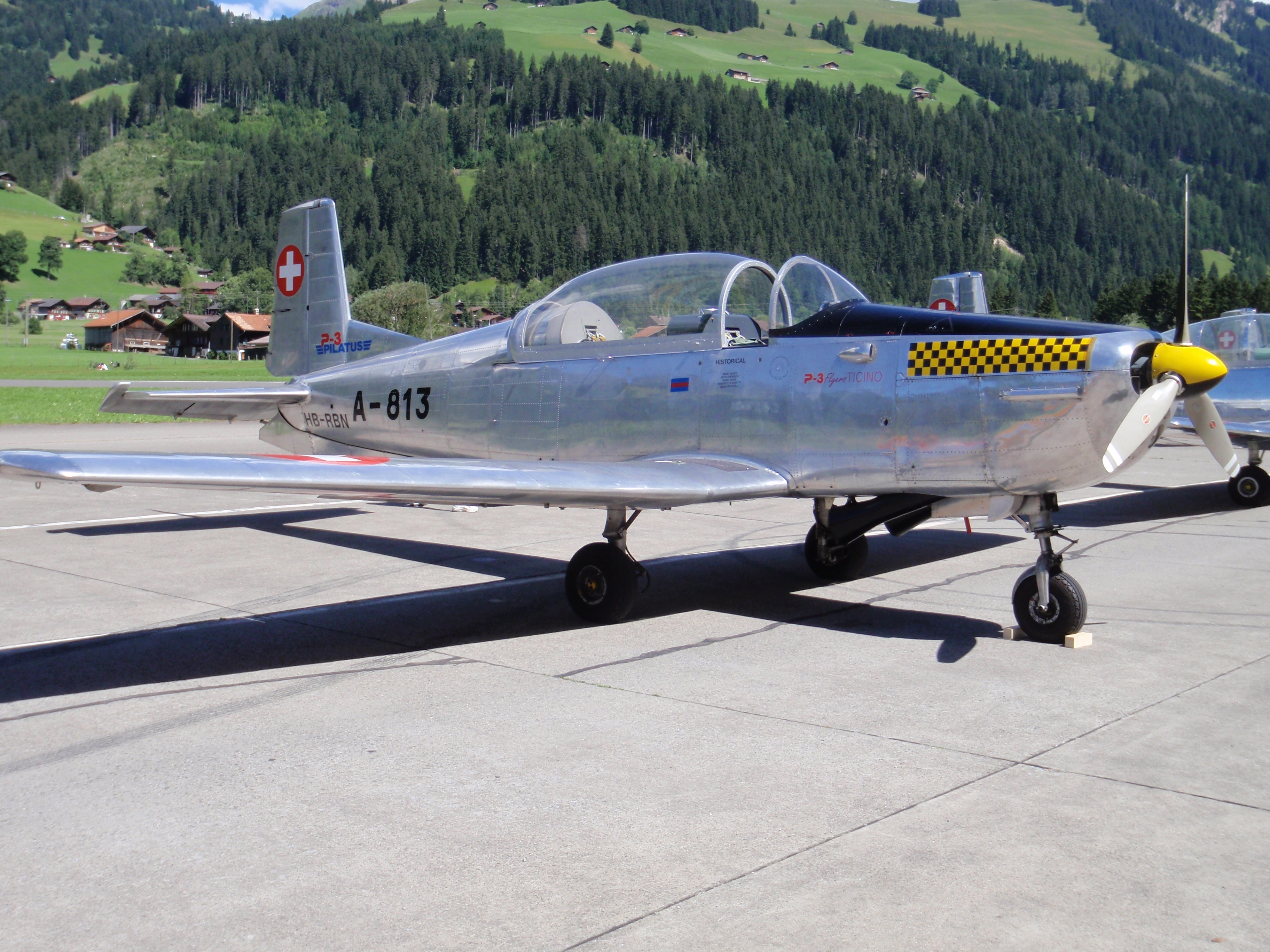 Pilatus P-3 of the "P3 Flyers" Switzerland aerobatic team